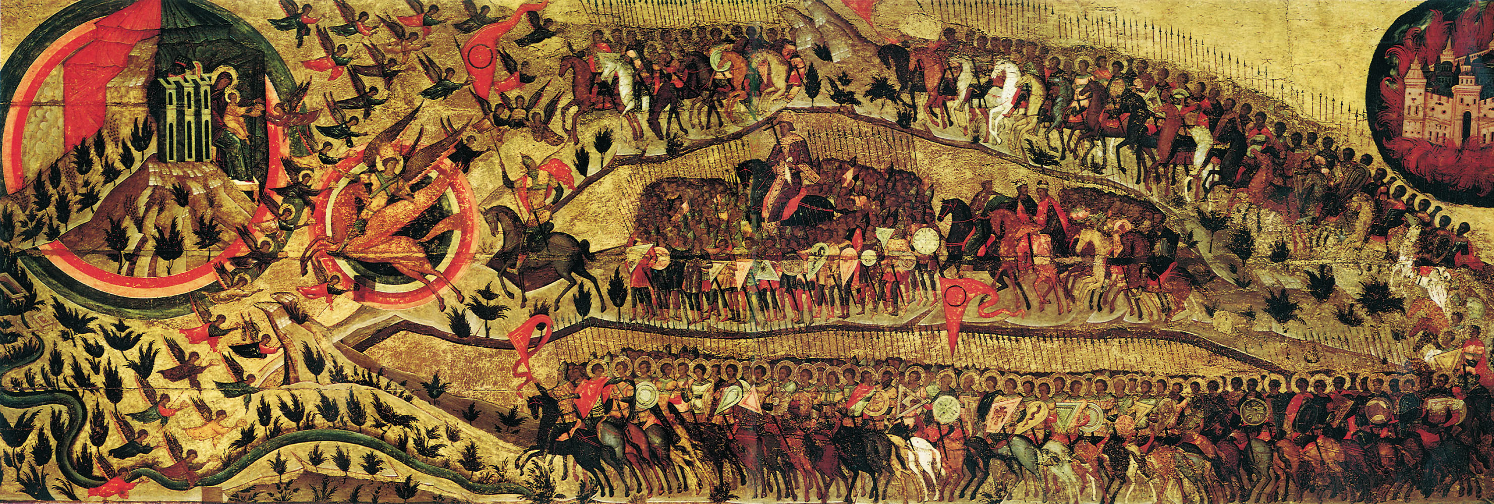 Blessed is the Host of the King of Heaven (alternatively known as Church Militant). Russian icon, ca. 1550 - 1560. Tretyakov Gallery. This icon is traditionally perceived as an allegorical representation of the conquest of the Kazan khanate.